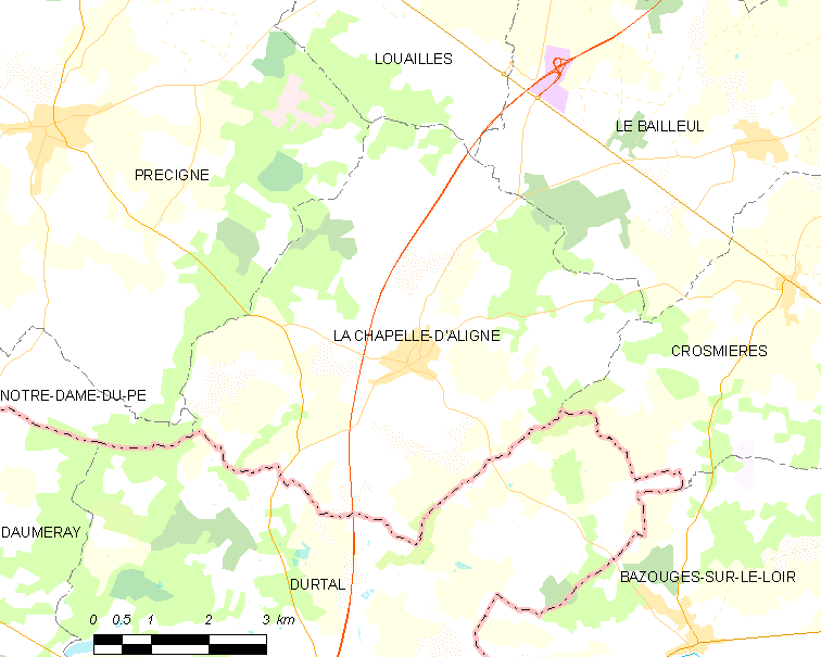 Map of French municipality